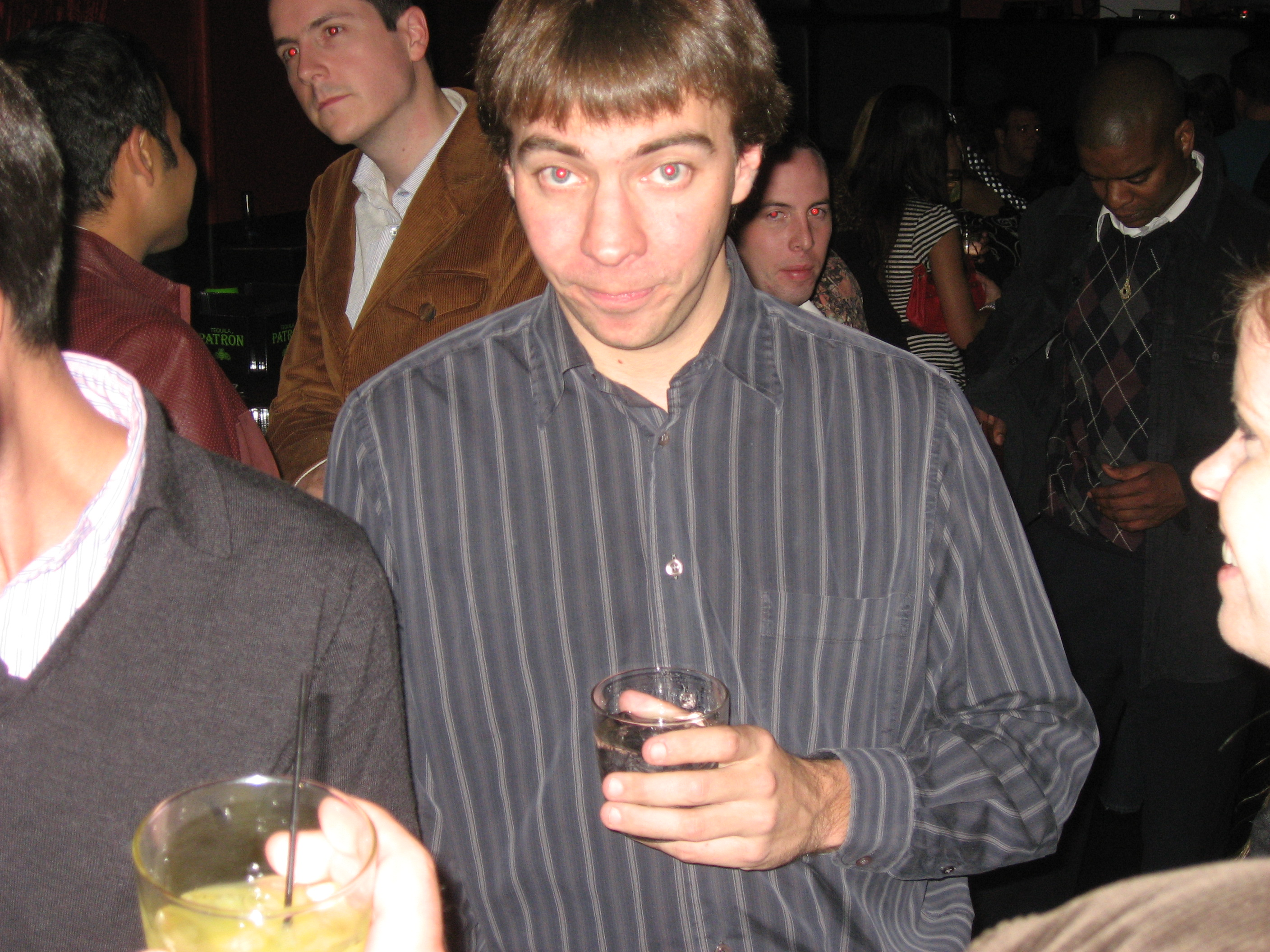 Lockhart Steele at Gawker party